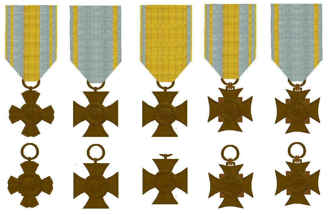 Five crosses of Sachse, 1849, 1849 , 1863/64 and 1866 dor comattants and non-combattants